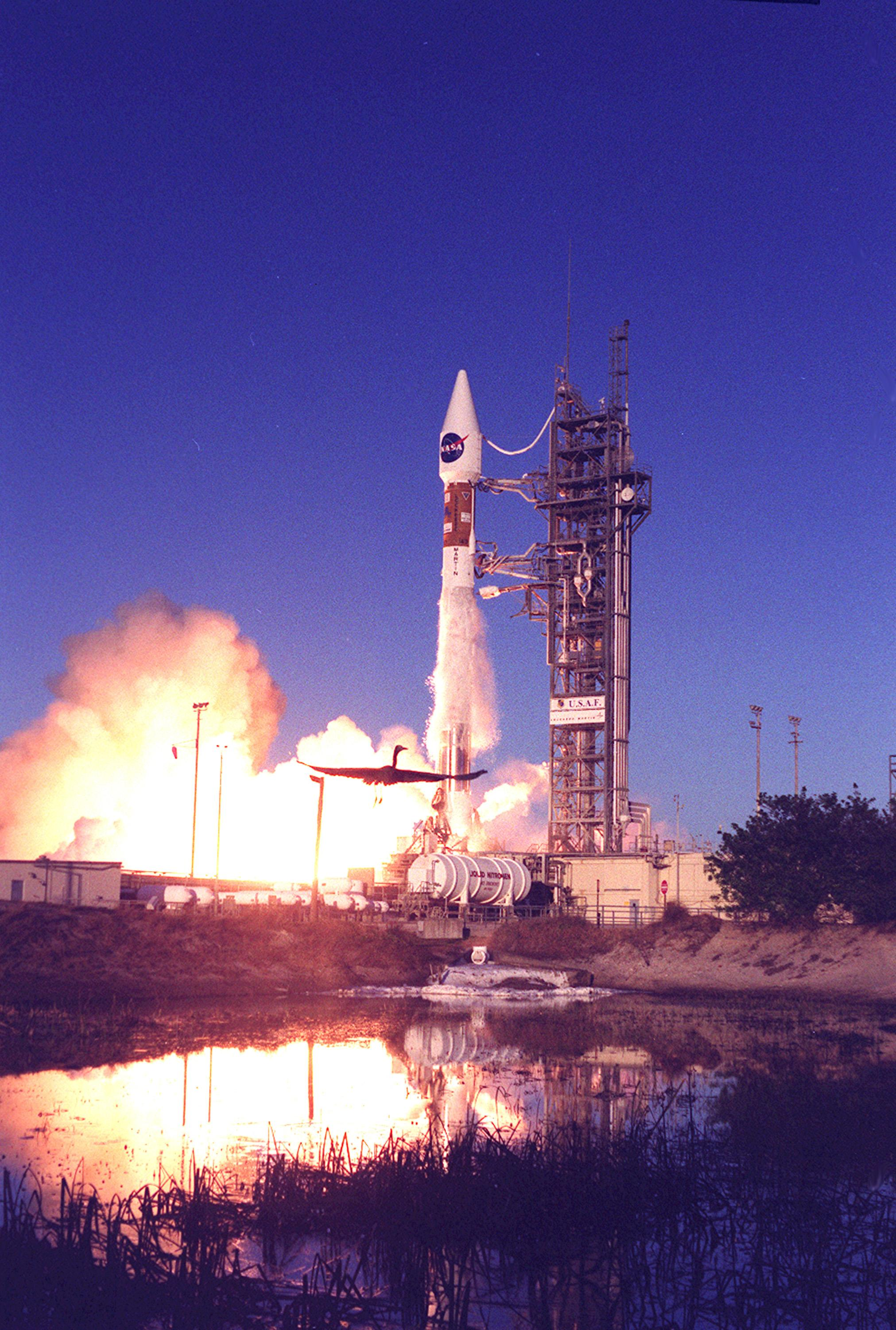 KENNEDY SPACE CENTER, FLA. -- A Great Blue Heron is silhouetted against the brilliance of the rocket exhaust as the Tracking and Data Relay Satellite-I (TDRS-1) is launched from Launch Pad 36-A, Cape Canaveral Air Force Station. TDRS-I replenishes the existing on-orbit fleet of six spacecraft. The TDRS System is the primary source of space-to-ground voice, data and telemetry for the Space Shuttle. It also provides communications with the International Space Station and scientific spacecraft in low-Earth orbit such as the Hubble Space Telescope. This new advanced series of satellites will extend the availability of TDRS communications services until about 2017. Liftoff occurred at 5:59 p.m. EST